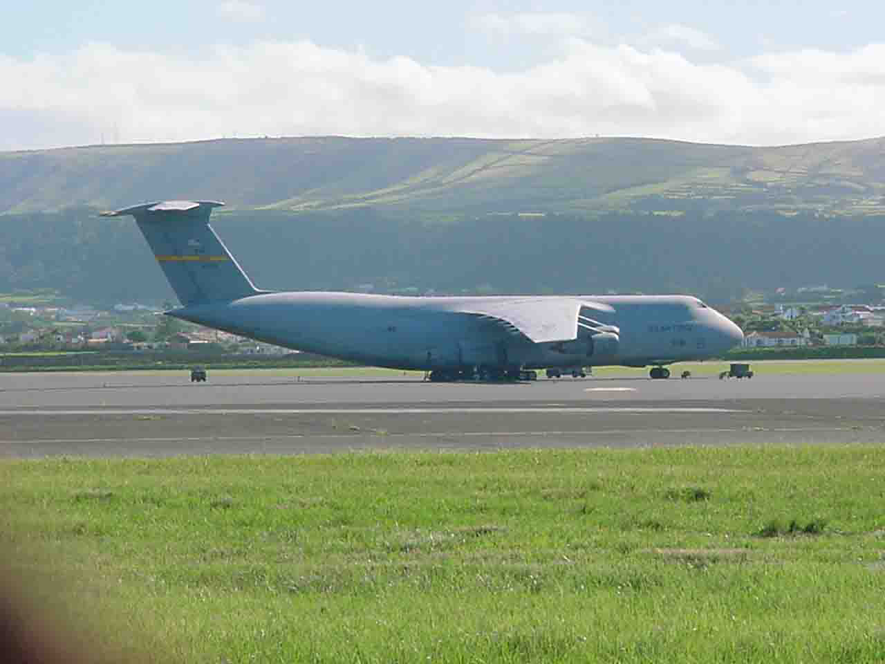 C-5 Galaxy of the US Air Force at Lajes Air Base, Terceira, Azores